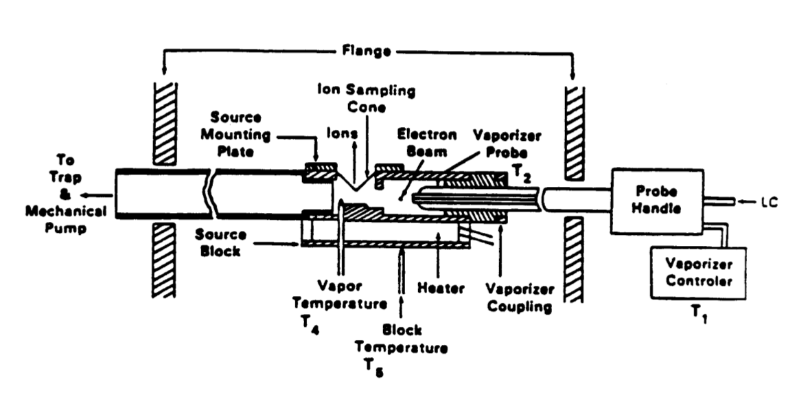 Image obtained from EPA Method 8321B (SW-846): Solvent-Extractable Nonvolatile Compounds by High Performance Liquid Chromatography-Thermospray-Mass Spectrometry (HPLC-TS-MS) or Ultraviolet (UV) Detection